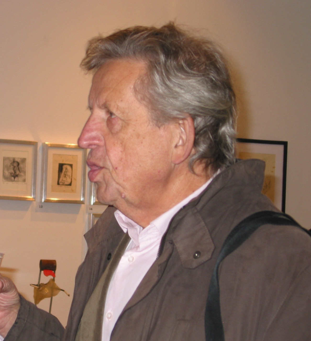 Museum director (retired) Jarno Peltonen